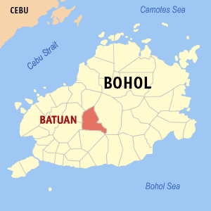 Map of Bohol showing the location of Batuan